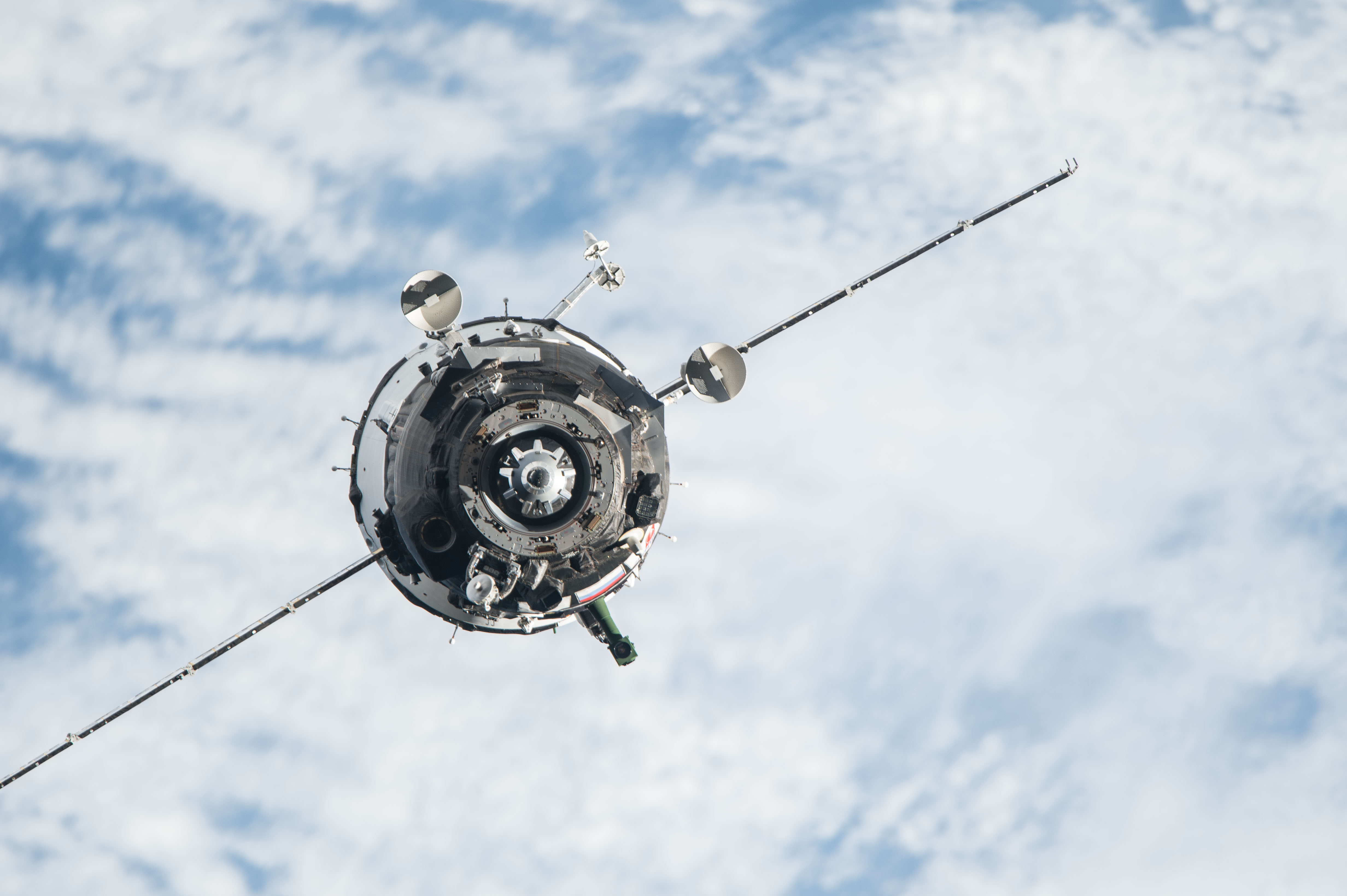 NASA and Russian cosmonauts arrive at the international space station Mar 19, 2016. NASA astronaut Jeff Williams and Russian cosmonauts Alexey Ovchinin and Oleg Skripochka docked to the International Space Station in their Soyuz TMA-20M spacecraft. They will spend 6 months onboard the station carrying out scientific experiments, performing maintenance and other duties.